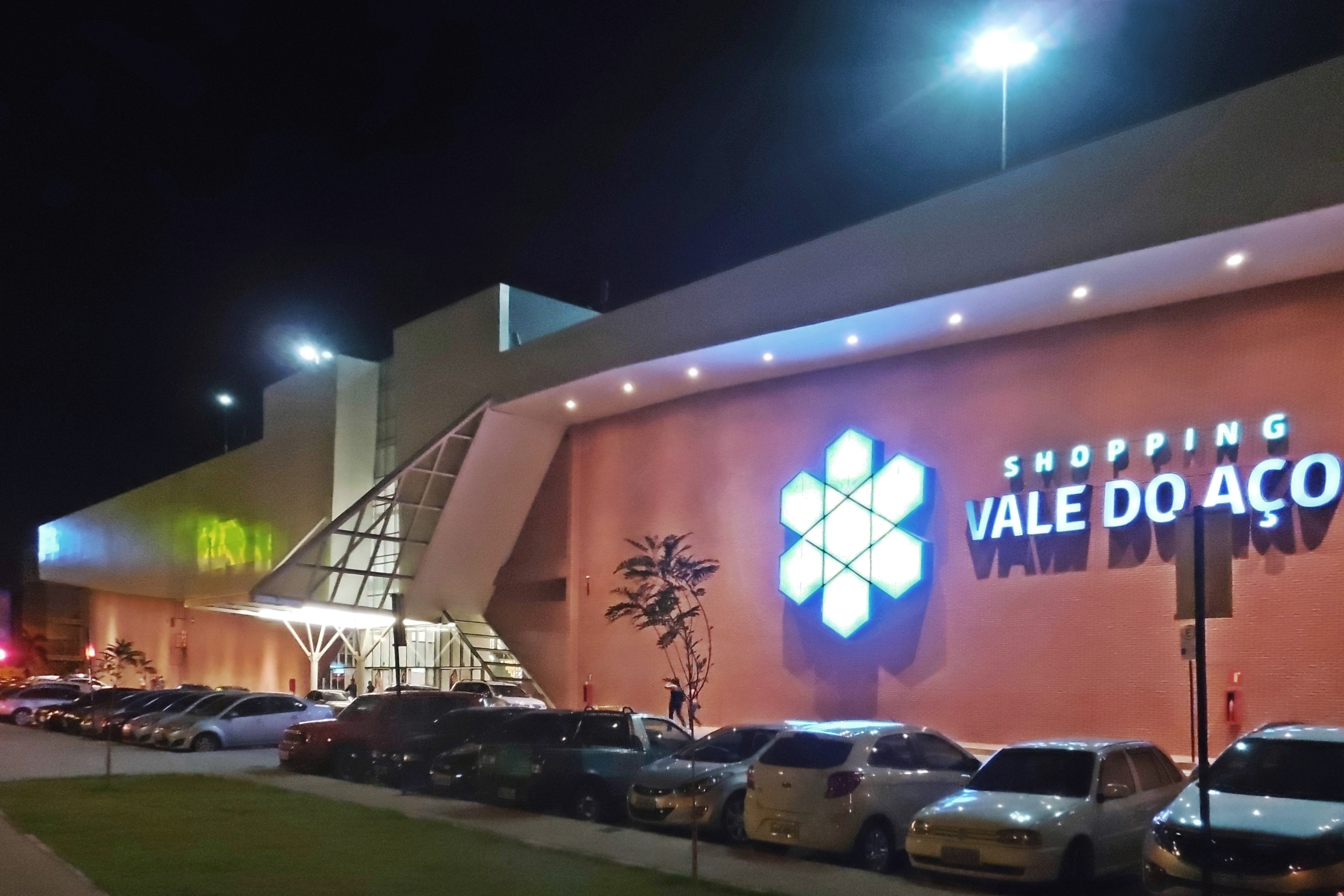 Partial view of the Shopping Vale do Aço, in Ipatinga, Minas Gerais, Brazil.